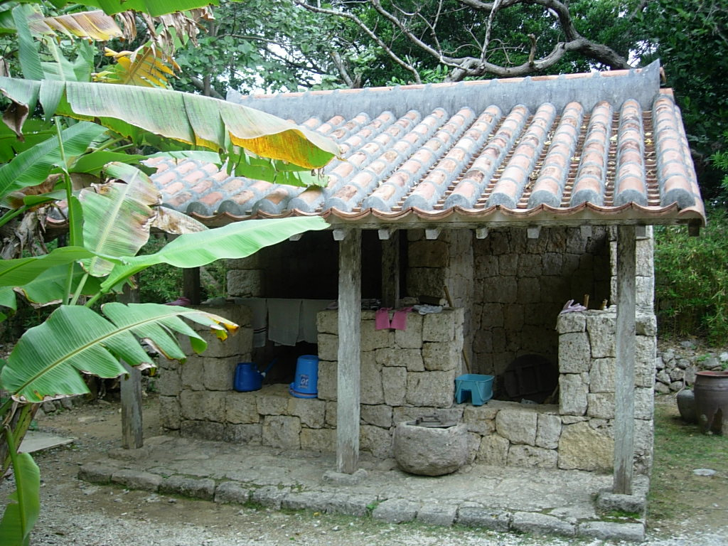 House in native Okinawan village